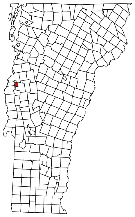 Map of Vermont towns with Waltham highlighted